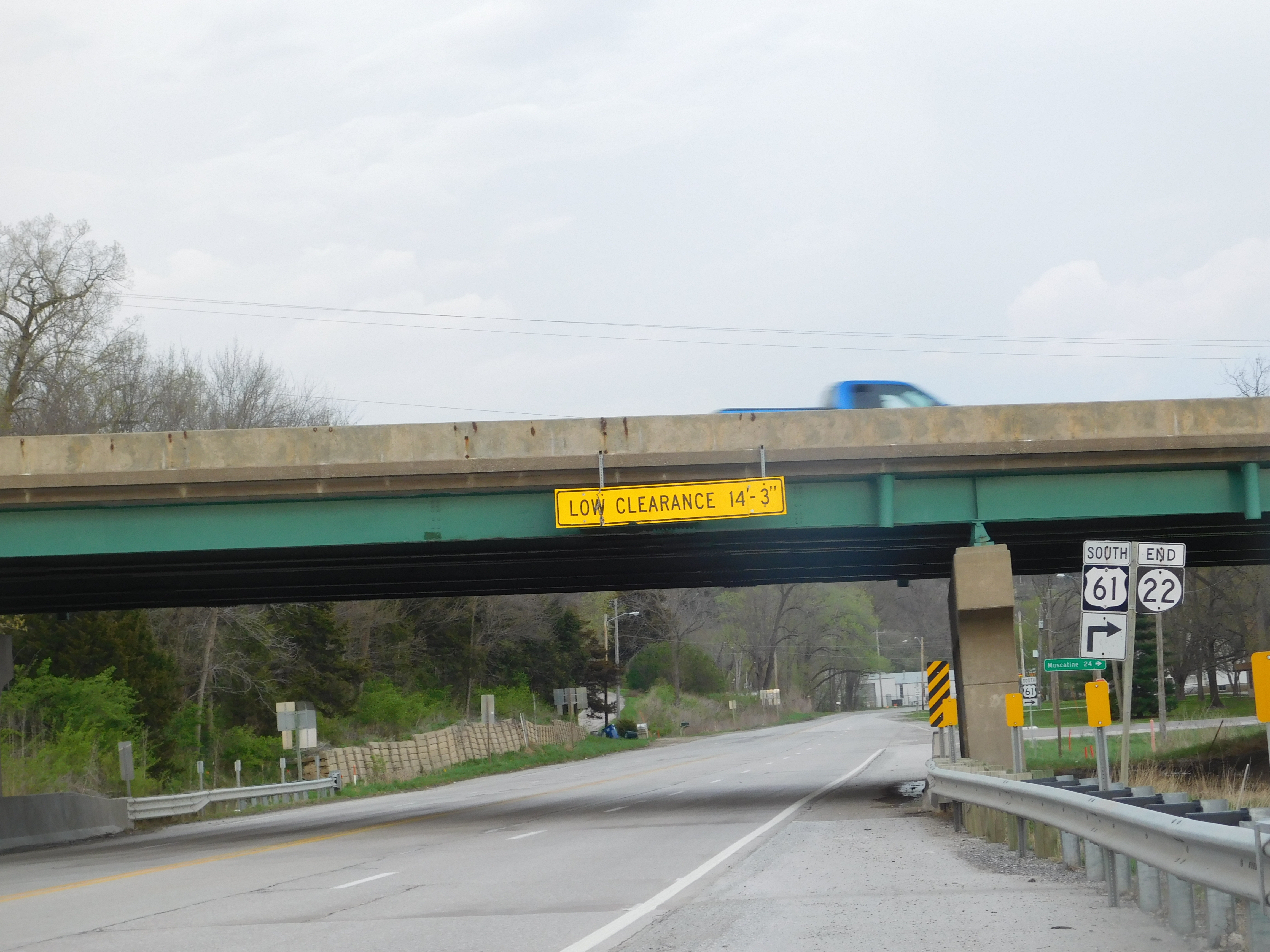 Iowa Highway 22 at the junction with U.S. Route 61 Business in Davenport, Iowa.